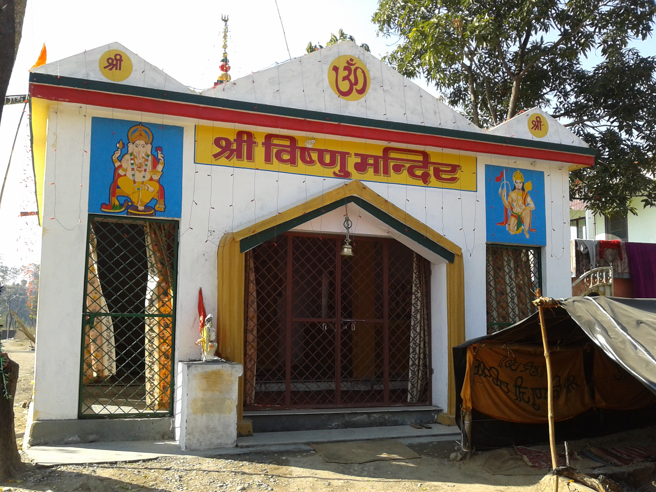 shree vishnu mandir at raipur dehradun